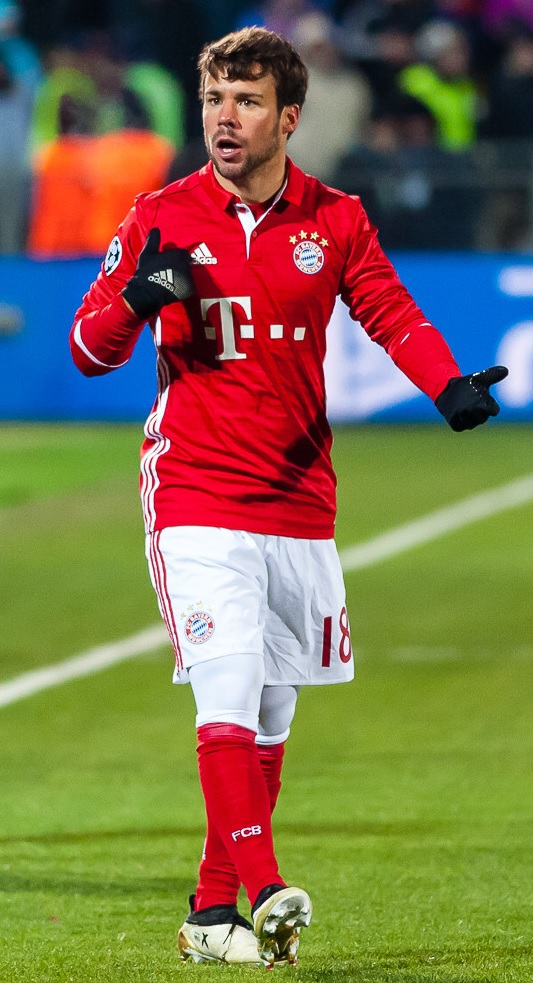 Juan Bernat with FC Bayern Munich in a Champions League game against FC Rostov.